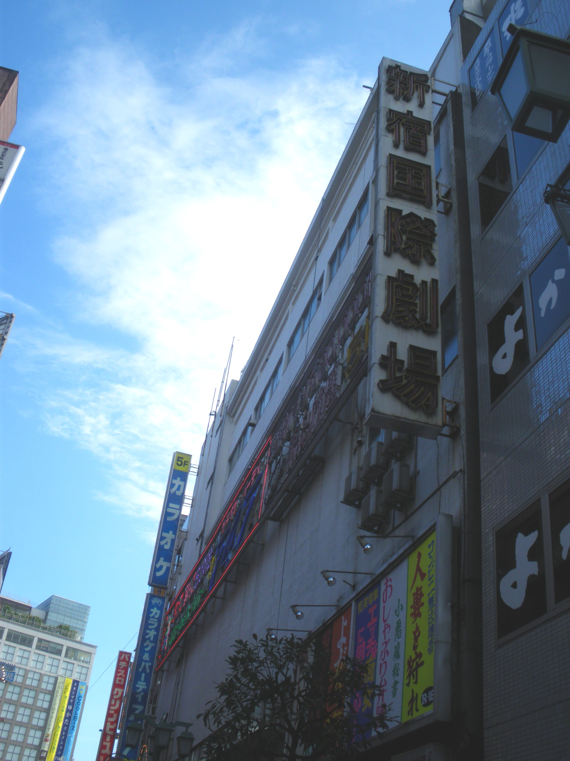 Shinjuku Kokusai Gekijo(Shinjuku,Tokyo)